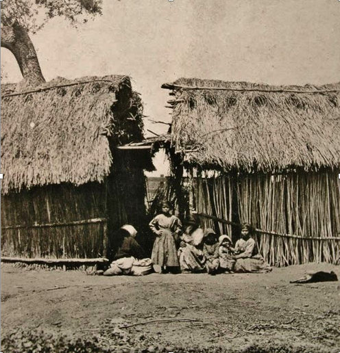 Photograph of Gabrieleño women and children in front of their dwelling and attached hut. Taken by Carleton E. Watkins on the L.J. Rose property, in Sunny Slope. Watkins made the photograph during one of his two trips to Southern California, in 1877 and 1880.